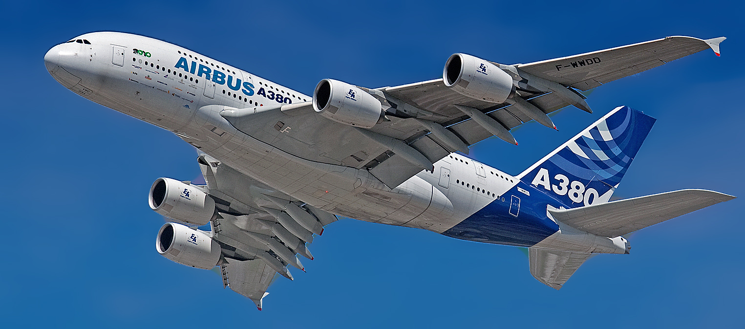 Airbus A380 on slow fly past.